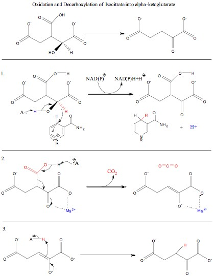 Catalytic mechanism of the breakdown of isocitrate into oxalosuccinate, then into a final product of alpha-ketuglutarate. The oxalosuccinate intermediate is hypothetical; it has never been observed in the decarboxylating version of the enzyme.[6].